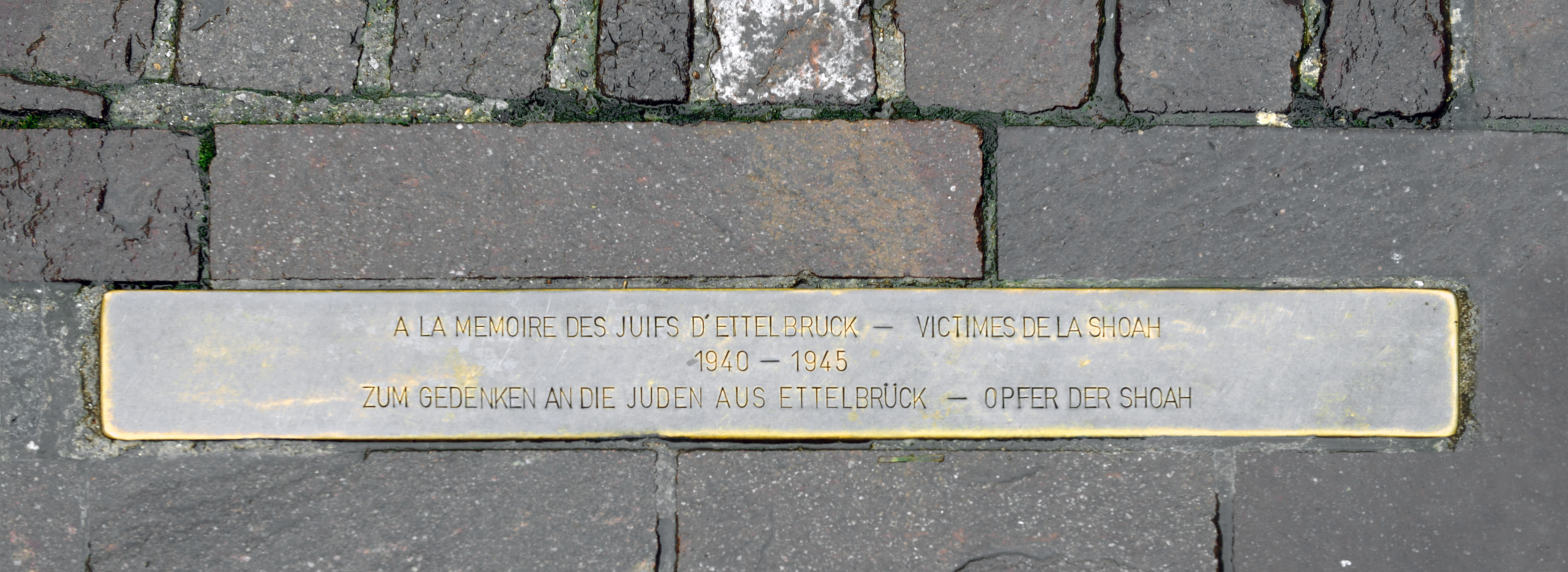 Luxembourg, Ettelbruck, Grand-Rue: a so-called Stolperschwelle commemorating the victims of the Shoah.